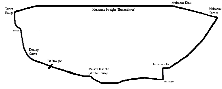 Replacement file